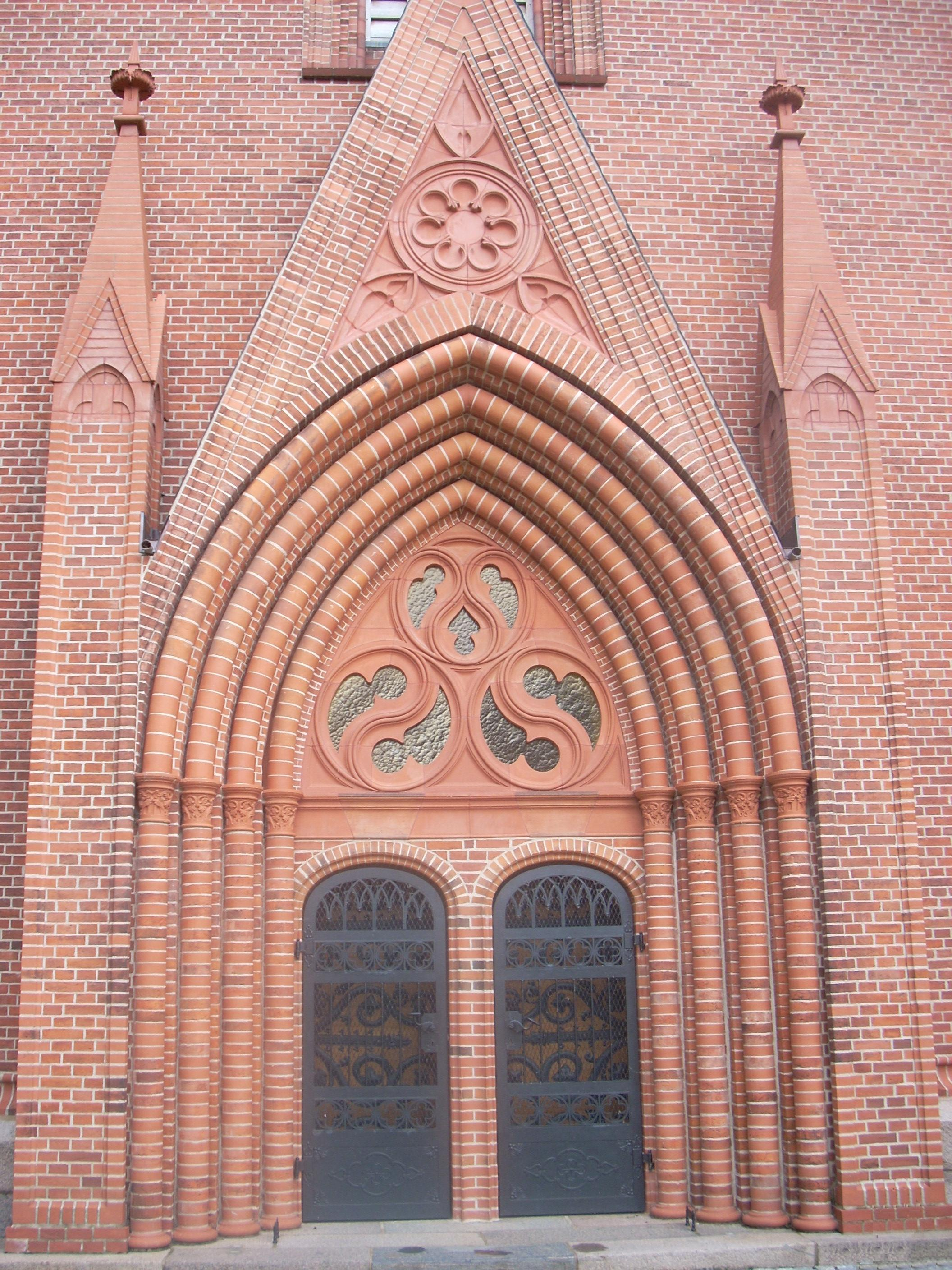 The Main portal from church at the Monastery Dobbertin